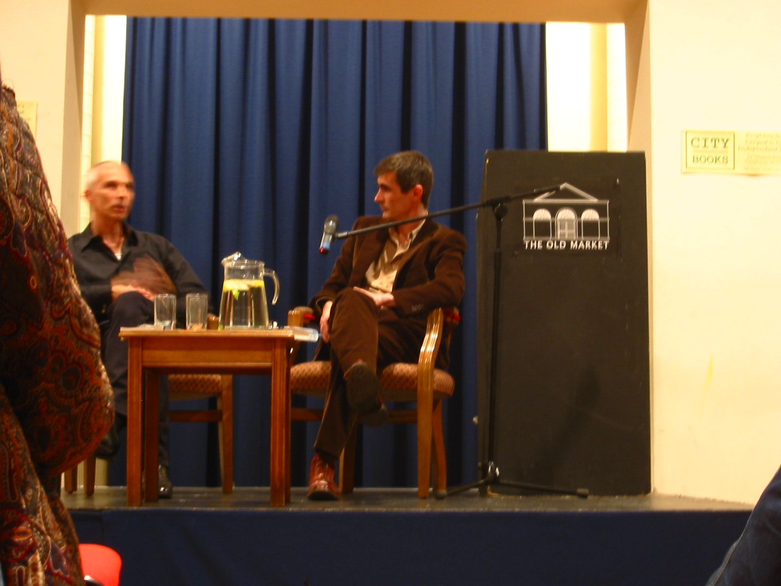 Writers Rubert Thomson and Andy Miller discuss their craft in the Old Market, Hove.